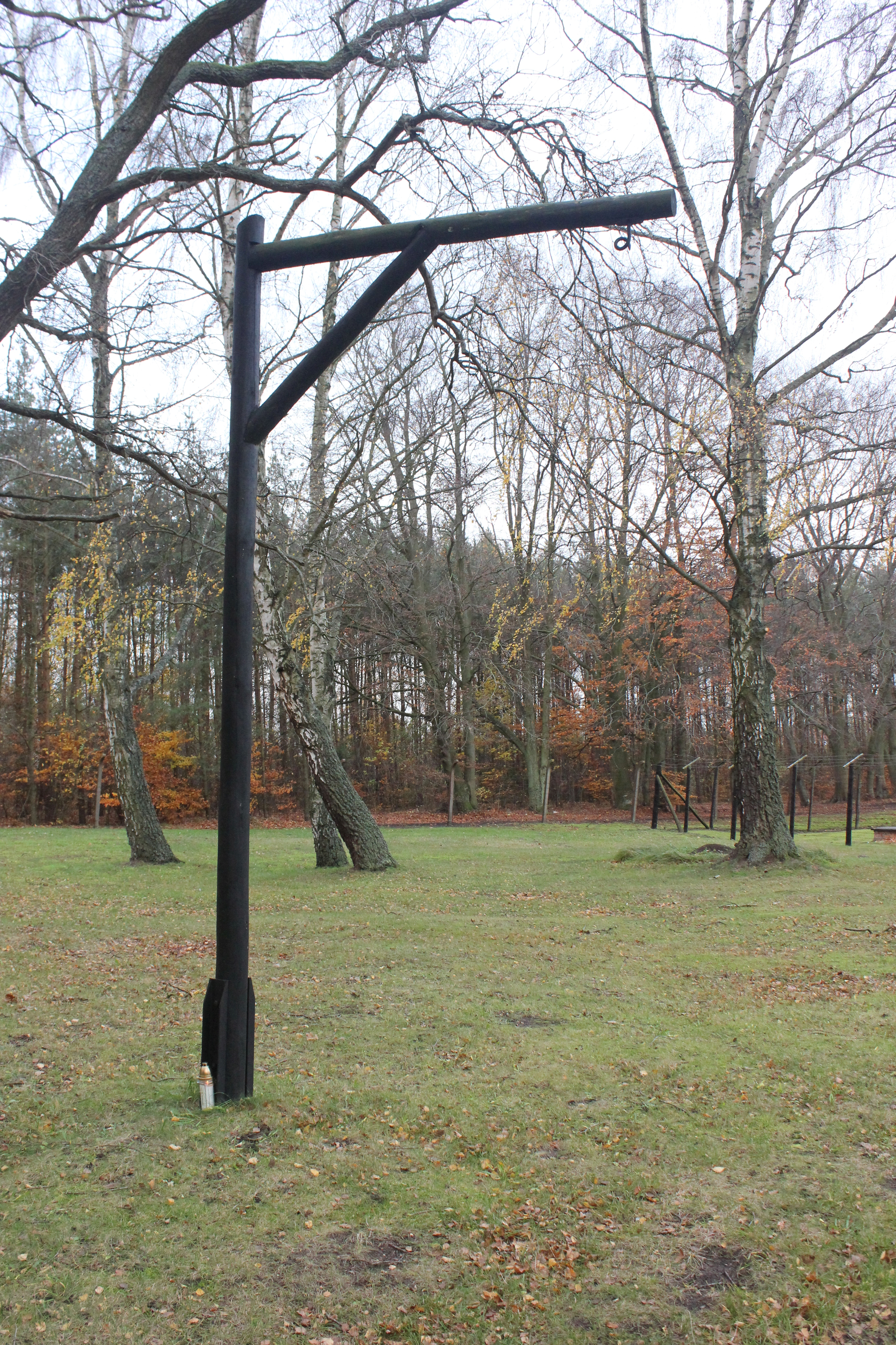 Sztutowo - Stutthof Museum - gallows